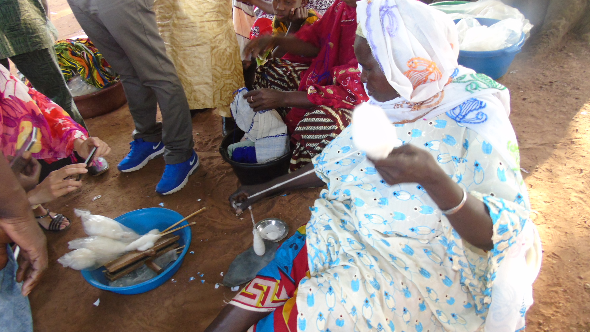 Femme qui fabrique le fil qui sert au tisserand. This is an image of "African people at work" from Ivory Coast